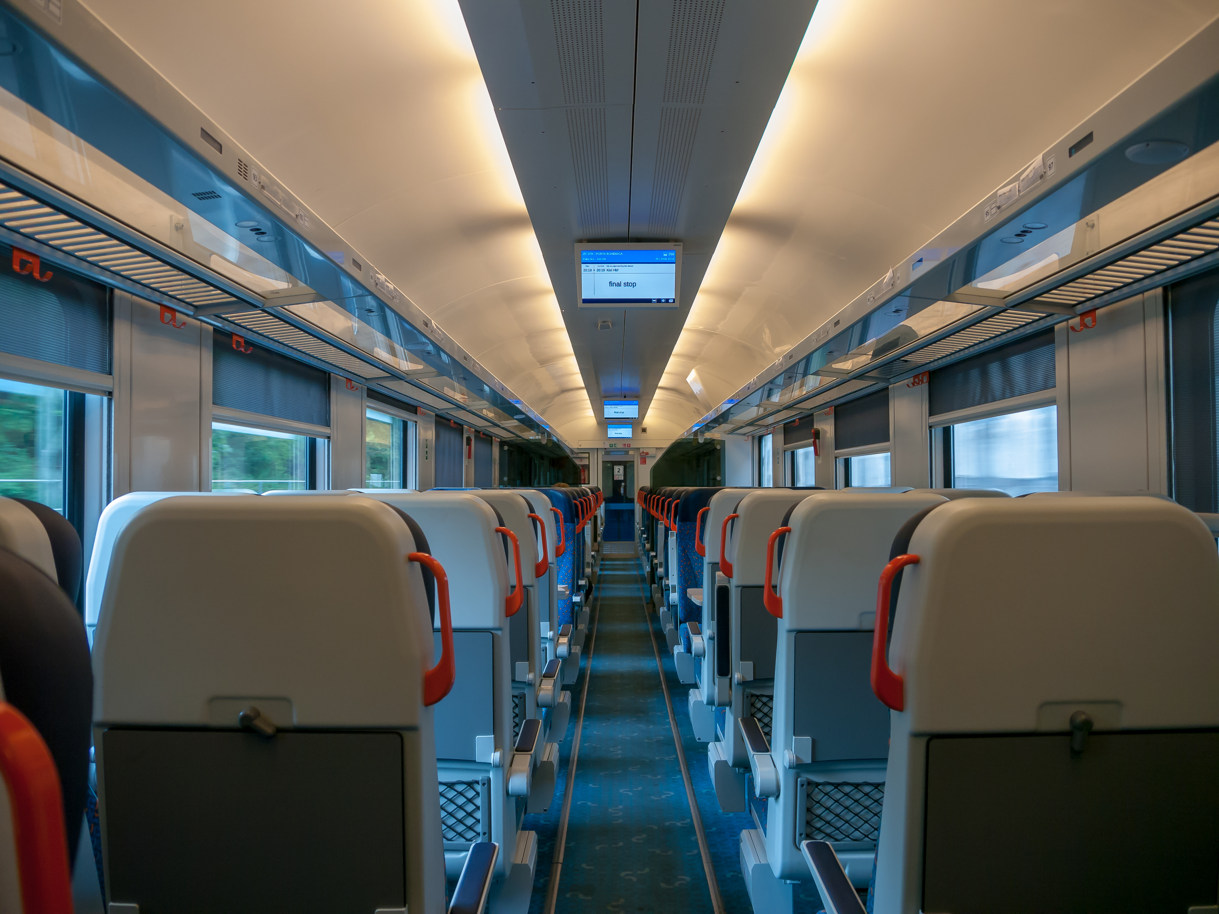 Czech EuroCity interior